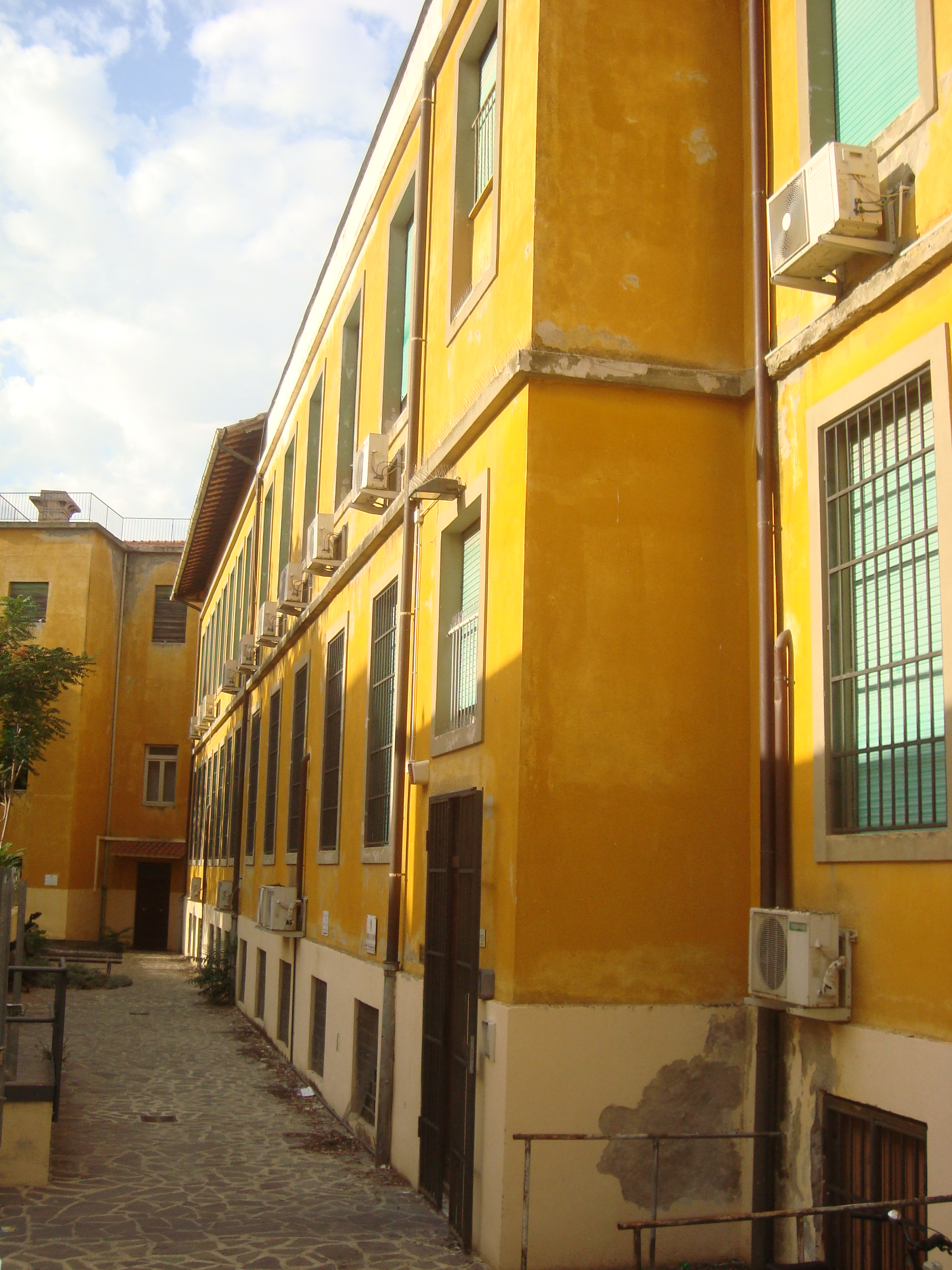 Ex-Misericordia Hospital in Grosseto